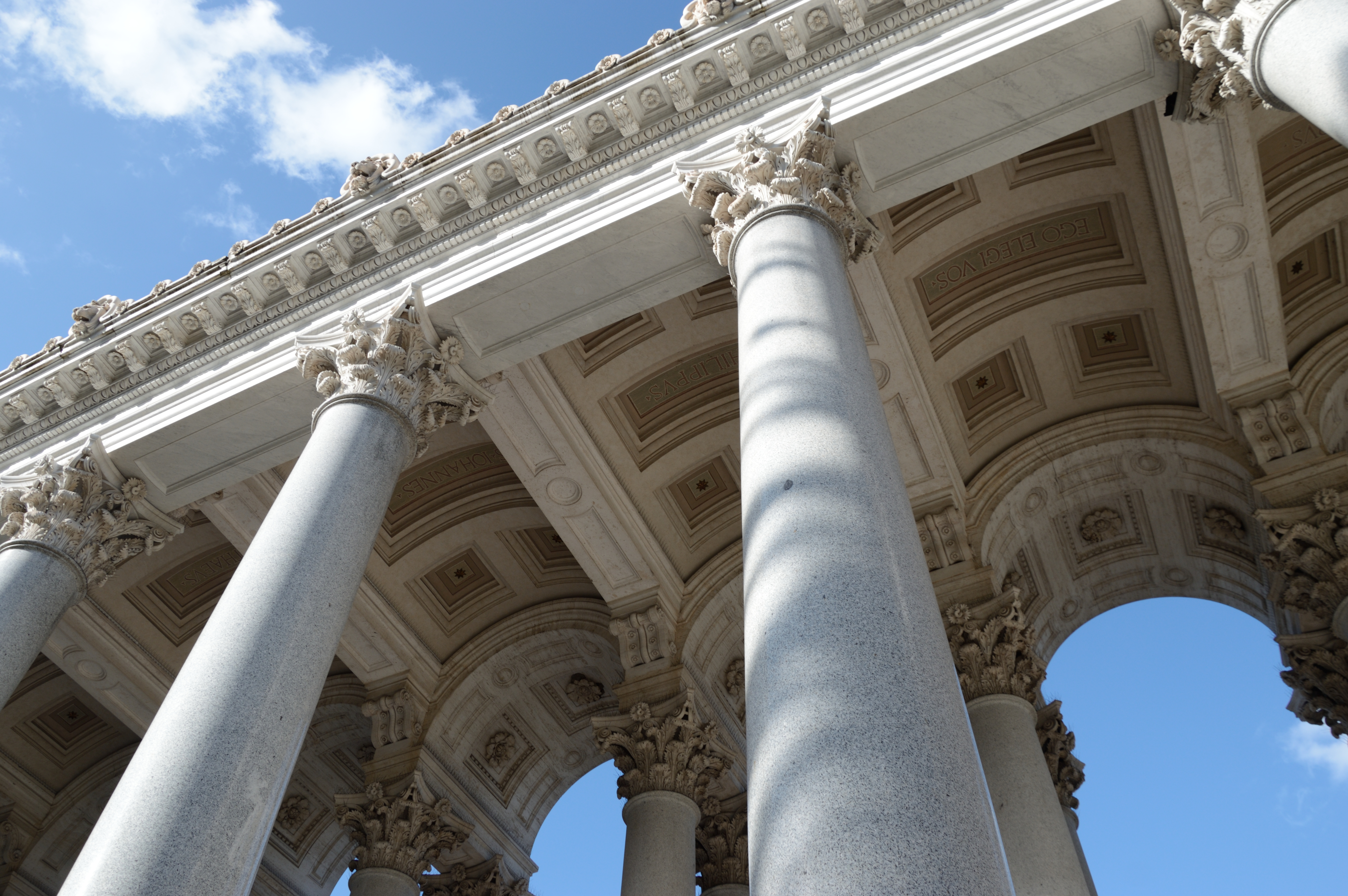 Colonnades of and sky above Basilica of Saint Paul Outside the Walls (Rome, Italy).